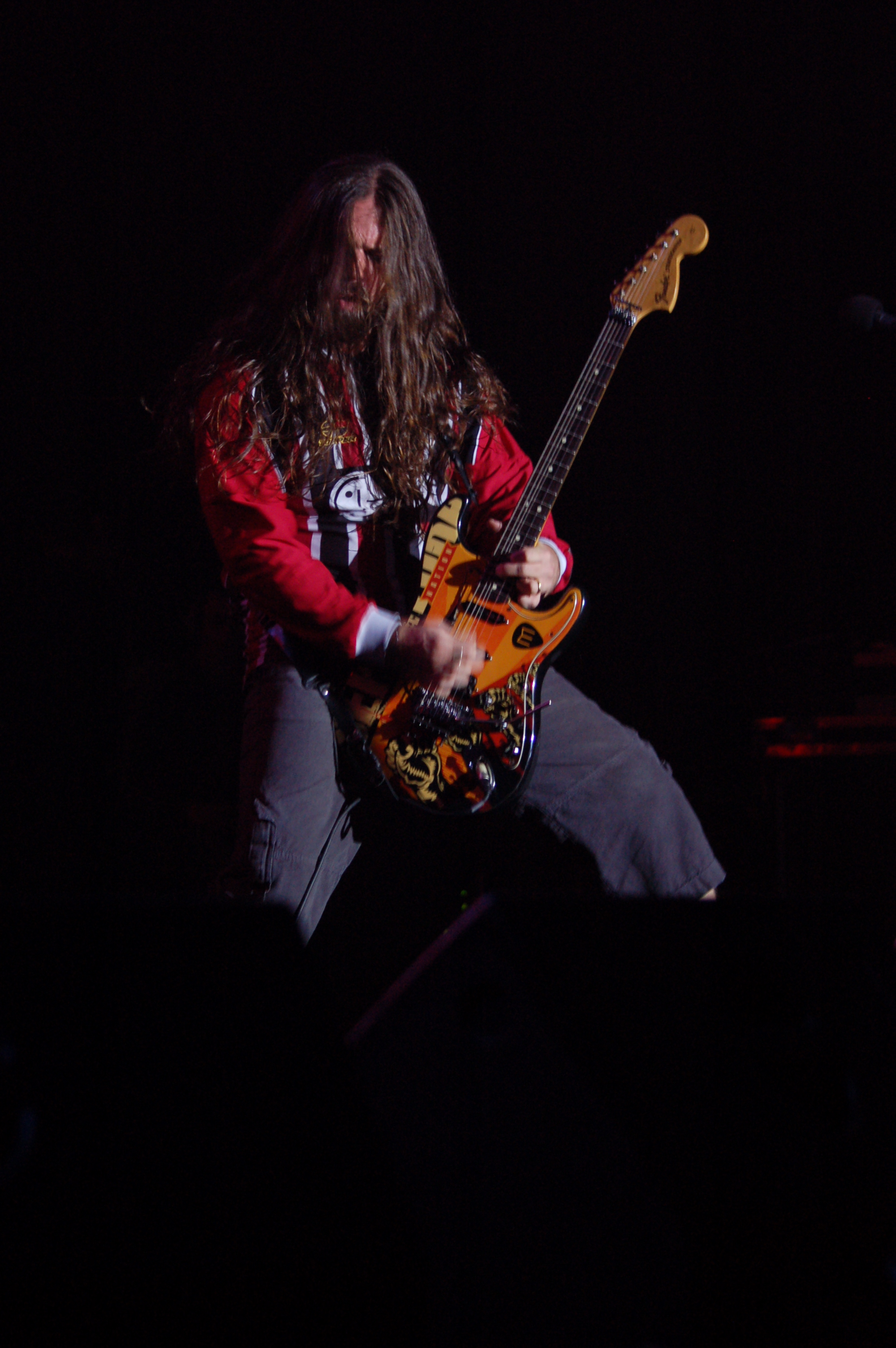 Andreas Kisser from Sepultura during Metalmania 2007 festival